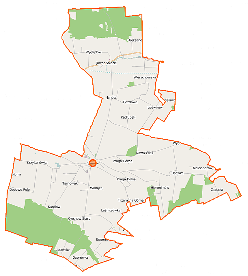 Map of Gmina Sienno, Poland This map of Sienno (gmina) was created from OpenStreetMap project data, collected by the community. This map may be incomplete, and may contain errors. Don't rely solely on it for navigation. Border coordinates51.192721.3760←↕→21.637251.0105